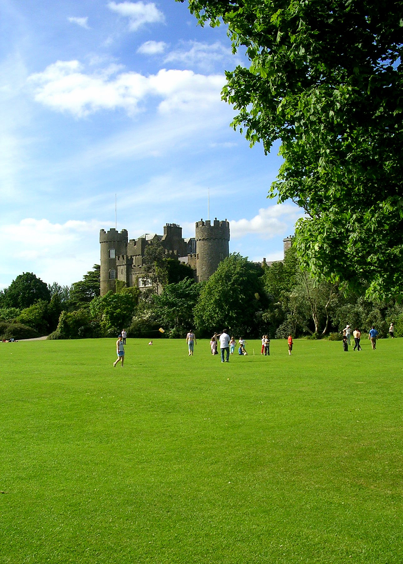 Malahide castle, County Fingal, Ireland.